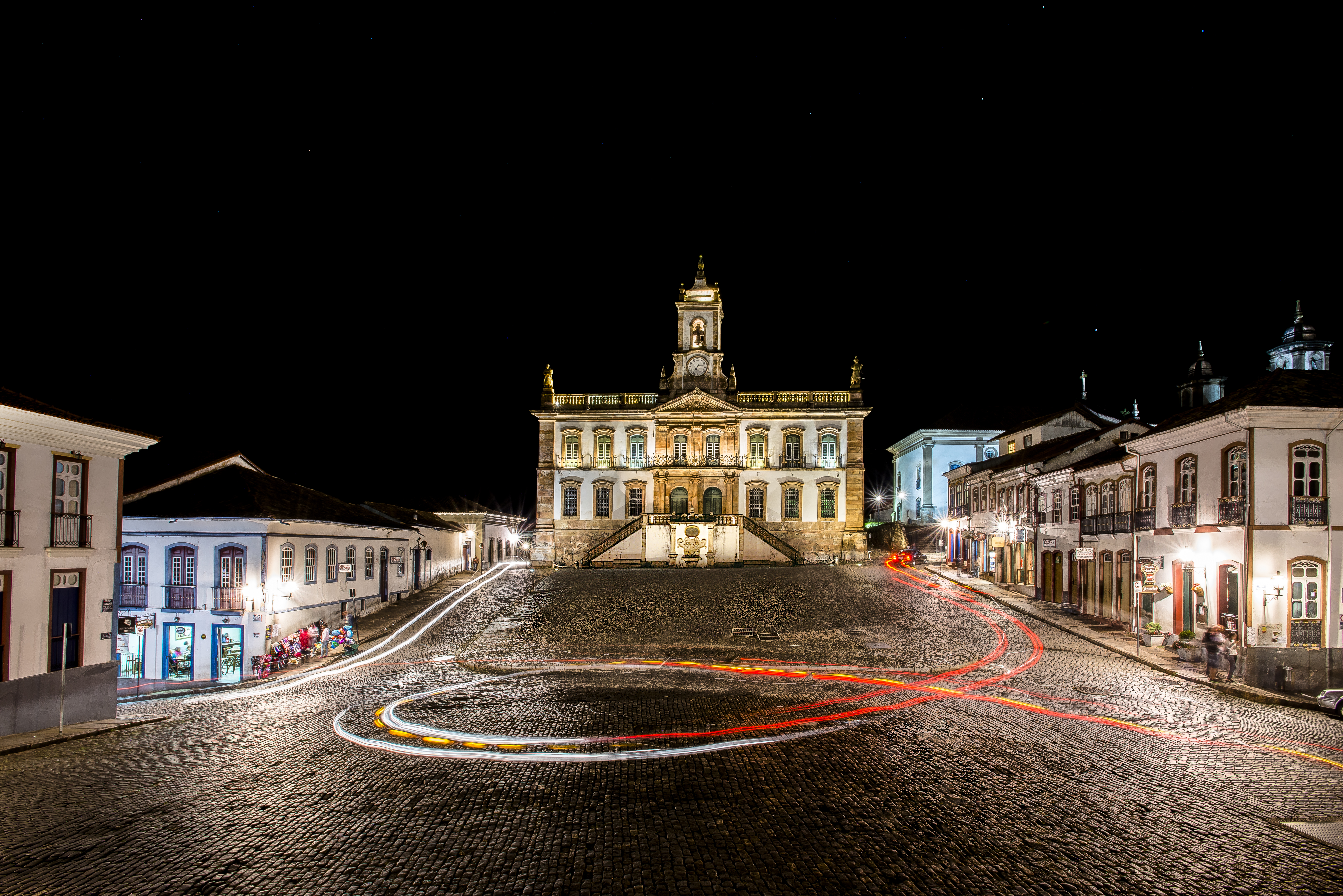 Museum of the Inconfidência, Ouro Preto, Brazil